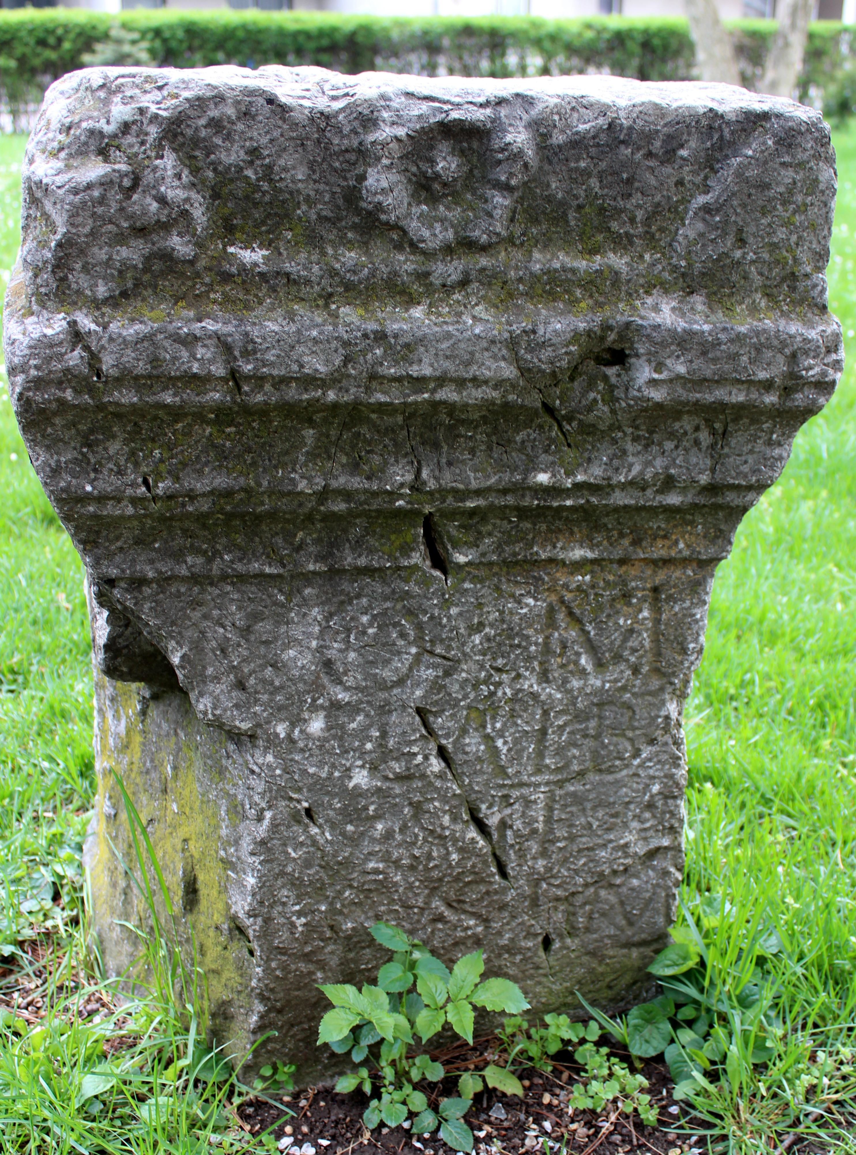 Ово задње би се приказало кад није ништа од понуђеног унесено. ID добра: NKD558